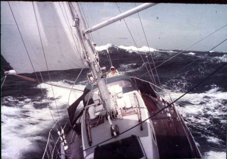 Sailing through a storm